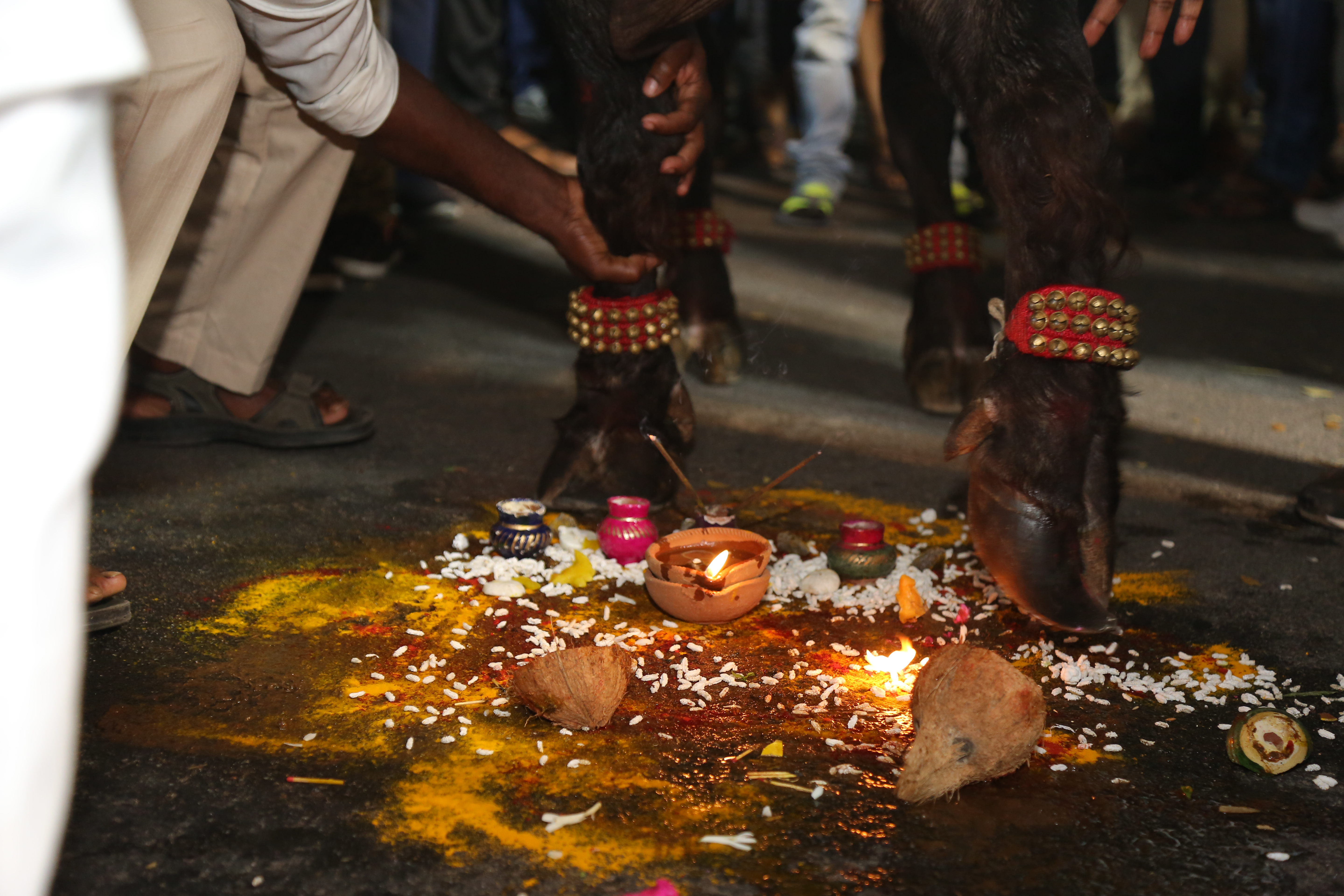 Buffalo Stomps Diya at Sadar (Closeup) - Marks commencement of procession